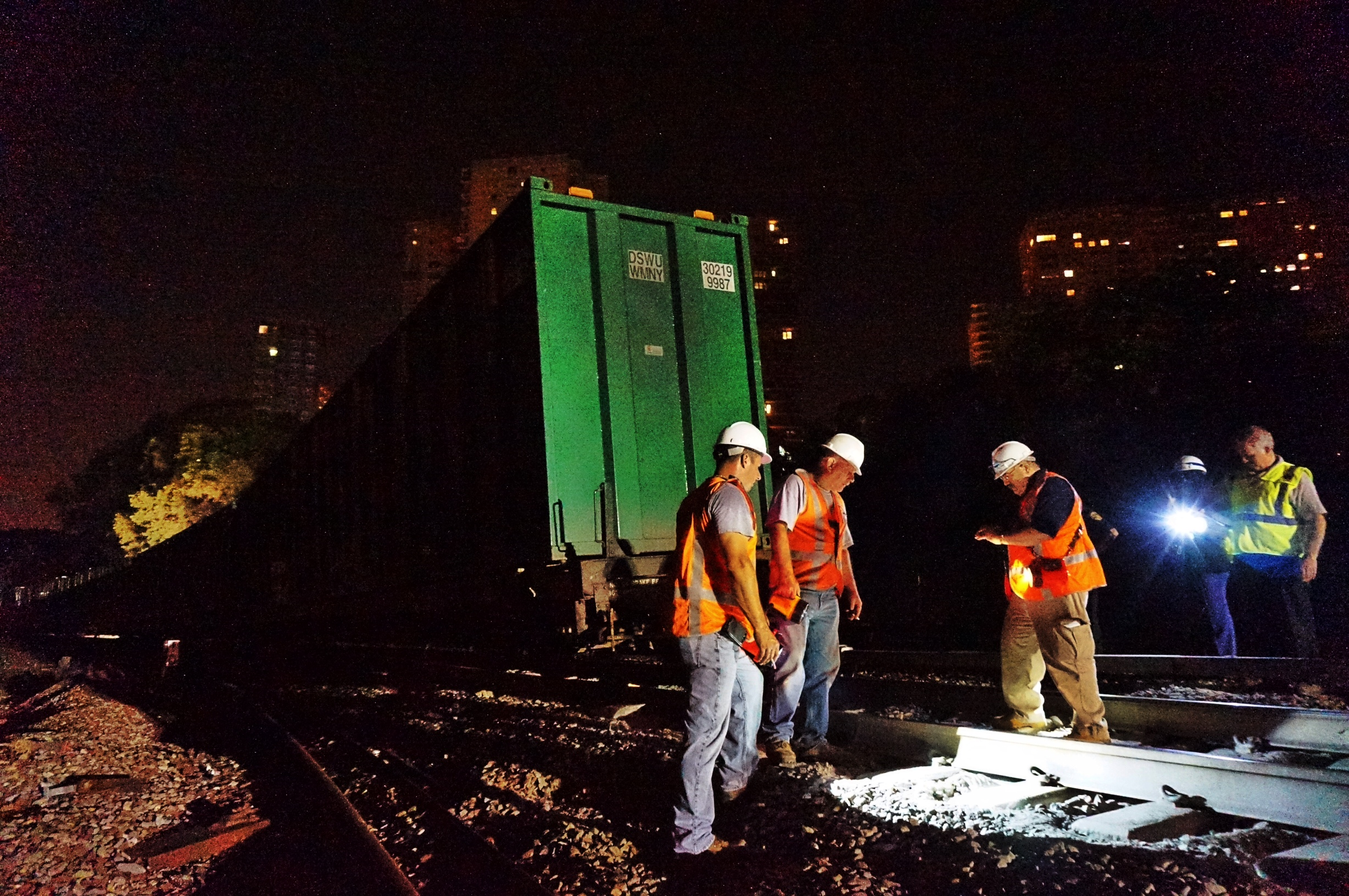 Ten cars of a freight train hauling garbage derailed on Metro-North Railroad's Hudson Line in the Bronx on Thursday, July 18, 2013. MTA Photo by Joseph P. Chan.